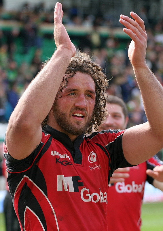 Namibian rugby union player Jacques Burger. Northampton Saints beaten 21-19 by Saracens at Franklin's Gardens in the Guinness Premiership Semi-Final on 16th May 2010.